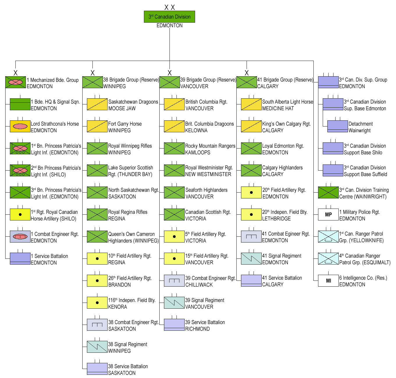 Structure of the 3rd Canadian Division 2013